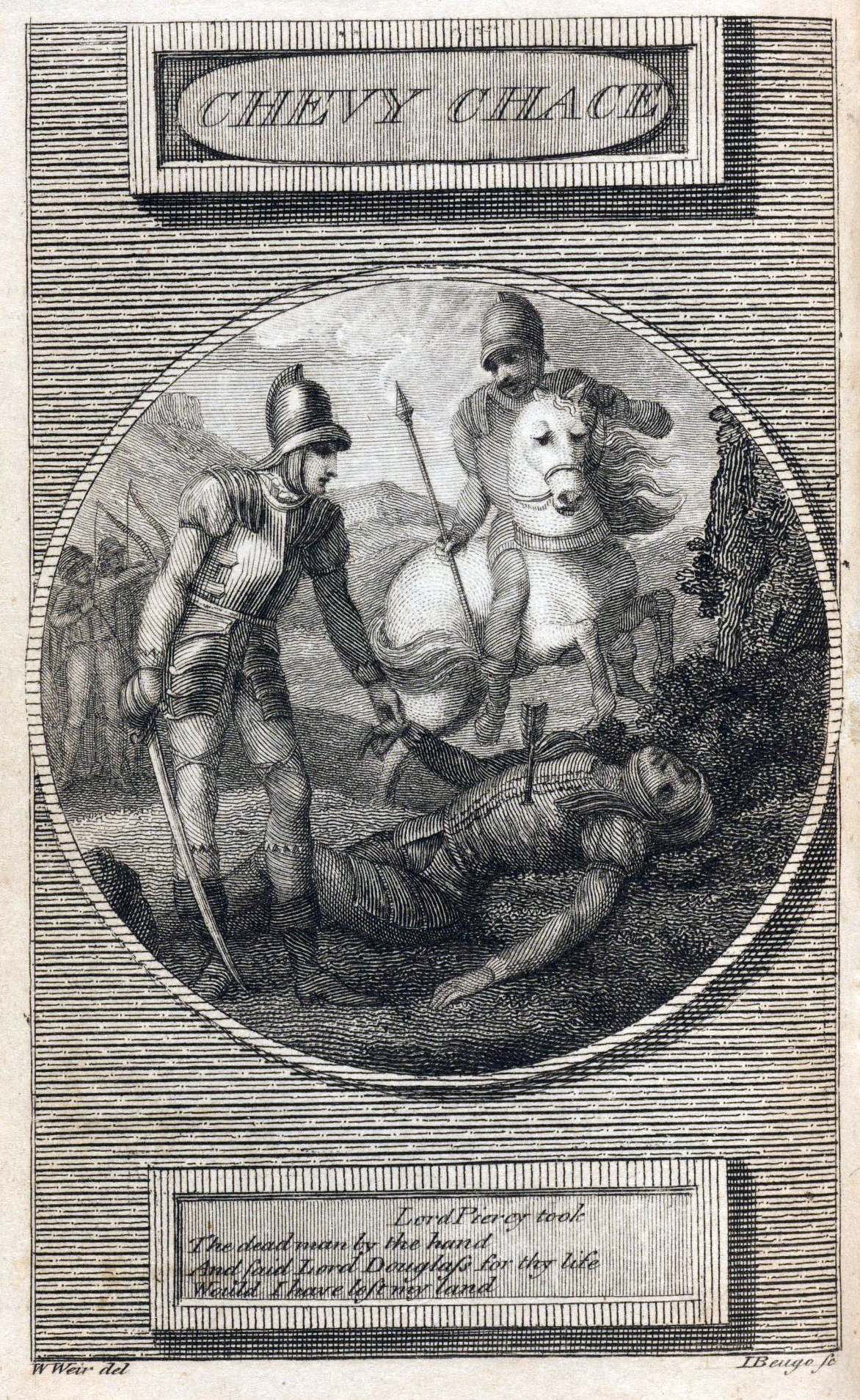 Frontispiece to A Select Collection of Favourite Scotish Ballads, 1790, printed in Perth by R. Morison, Junior, for R. Morison and Son, booksellers, Perth, and G. Mudie, bookseller, Edinburgh. Volume III (Chevy Chace). Image added for color, brightness/contrast. *EC75 M8266 790s, Houghton Library, Harvard University